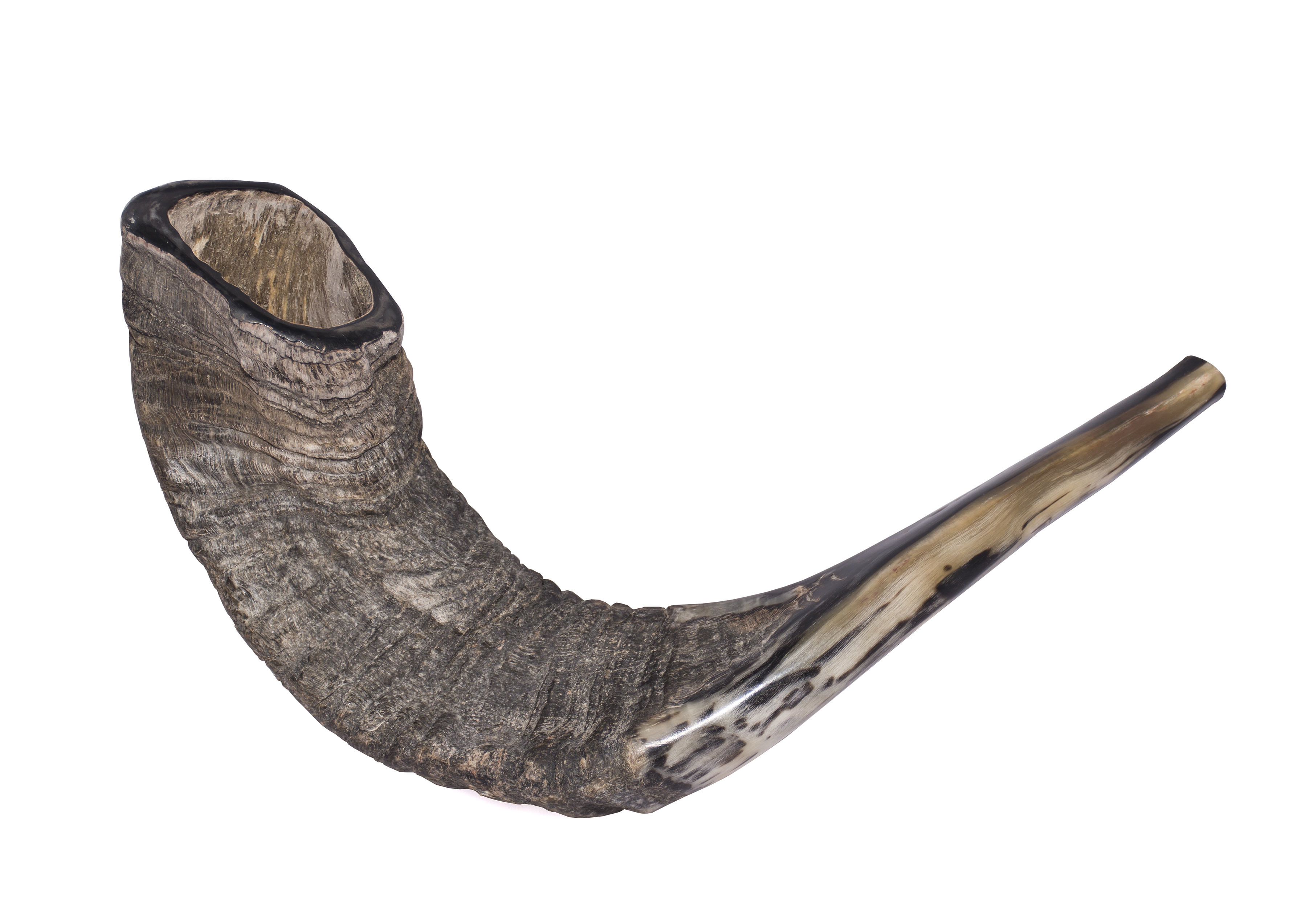 Shofar (Jewish ritual horn) שופר